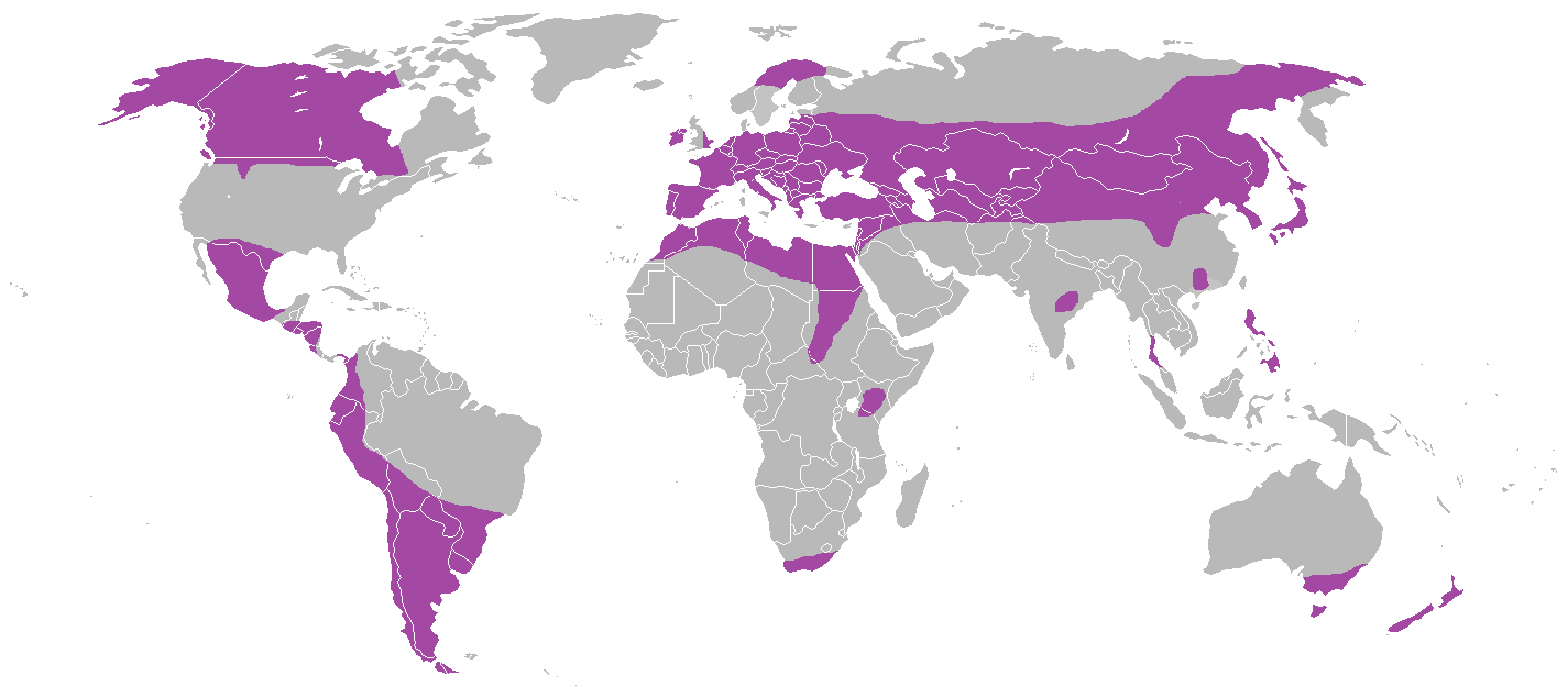 Echinococcus granulosus distribution map